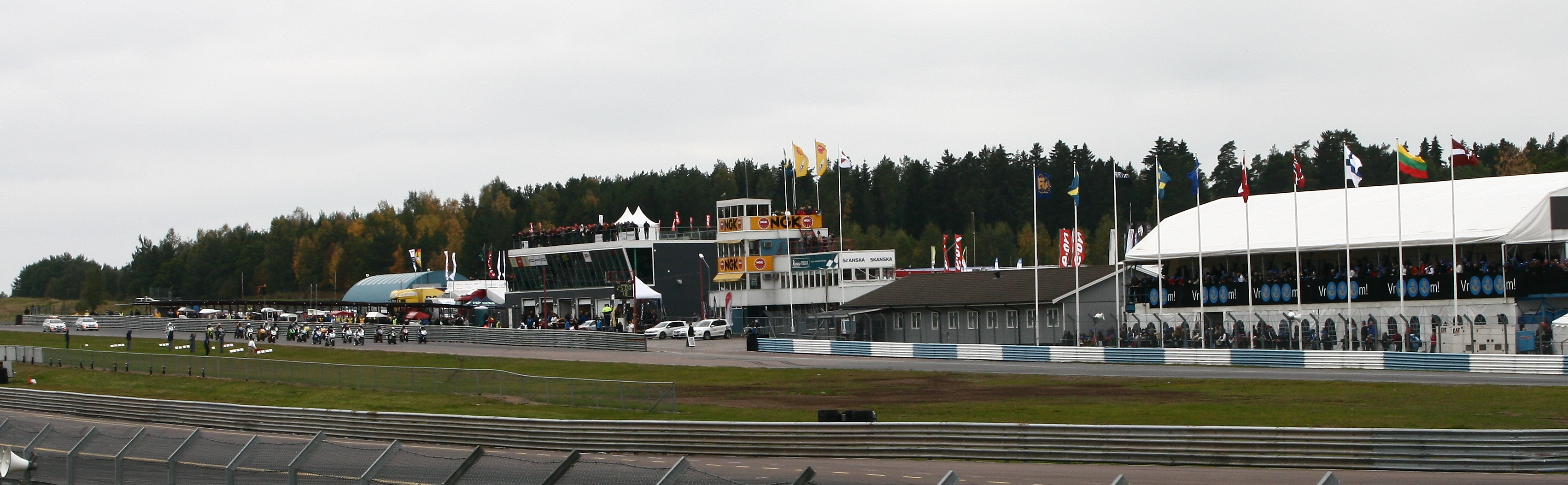 Start of a motorcycle race at Mantorp Park in Sweden.